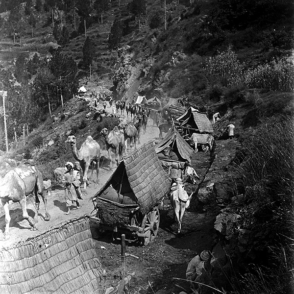 1902 K2 expedition on the Karakoram Highway.